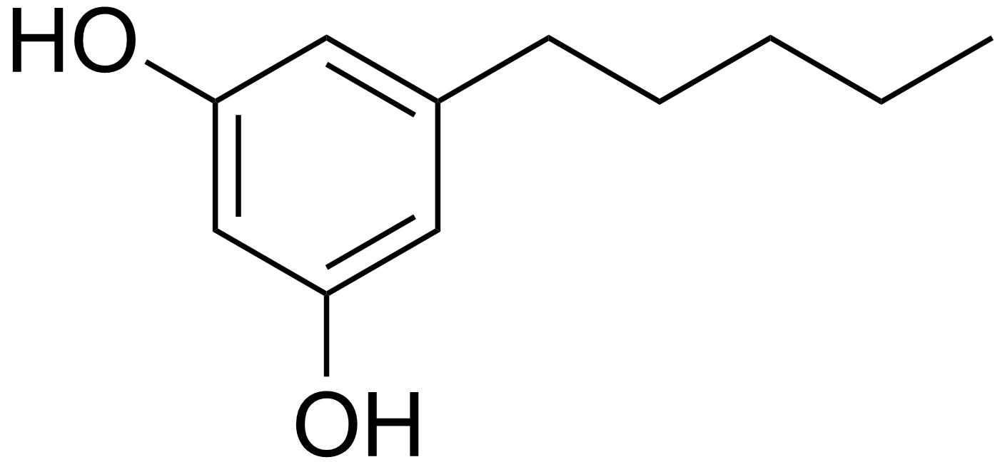 Chemical structure of olivetol (5-Pentylresorcinol; 5-n-Amylresorcinol; 5-Pentyl-1,3-benzenediol)